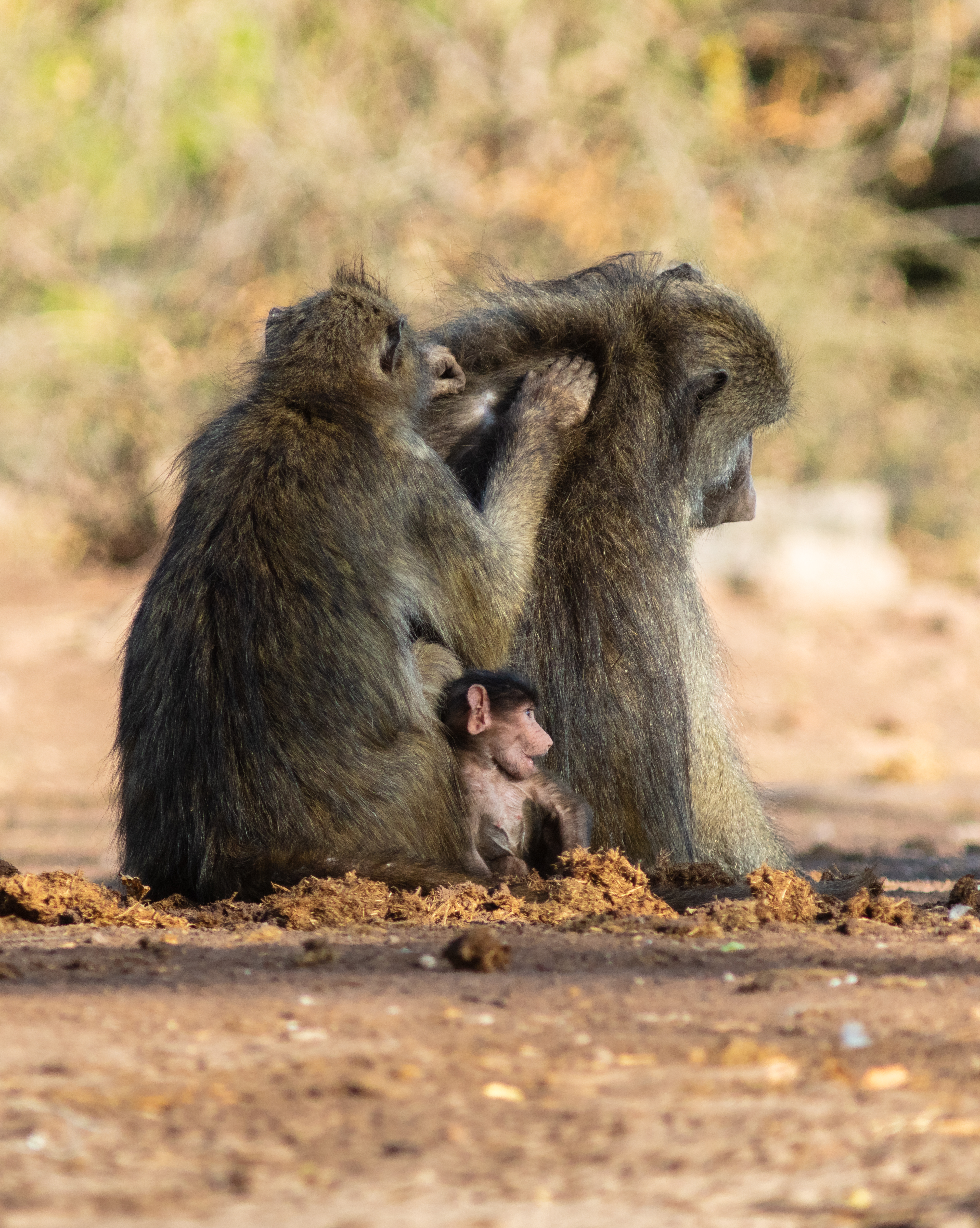 Chacma baboon (Papio ursinus), Chobe National Park, Botswana